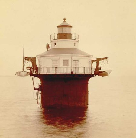 CRAIGHILL CHANNEL LOWER RANGE FRONT LIGHT; no photo number; "CRAIGHILL CHANNEL FRONT BEACON; CRAIGHILL CHANNEL RANGE FRONT; FIFTH NAVAL DISTRICT (Norfolk)"; 22 August 1885; photo by Major Jared A. Smith. Image taken from Coast Guard website and cropped.